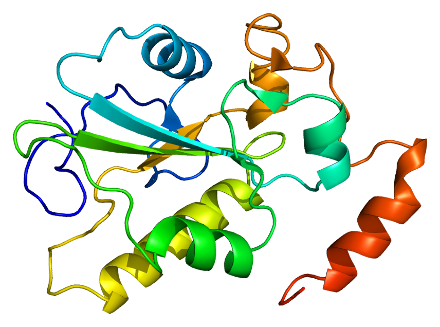 Structure of the CDC25B protein. Based on PyMOL rendering of PDB 1cwr.